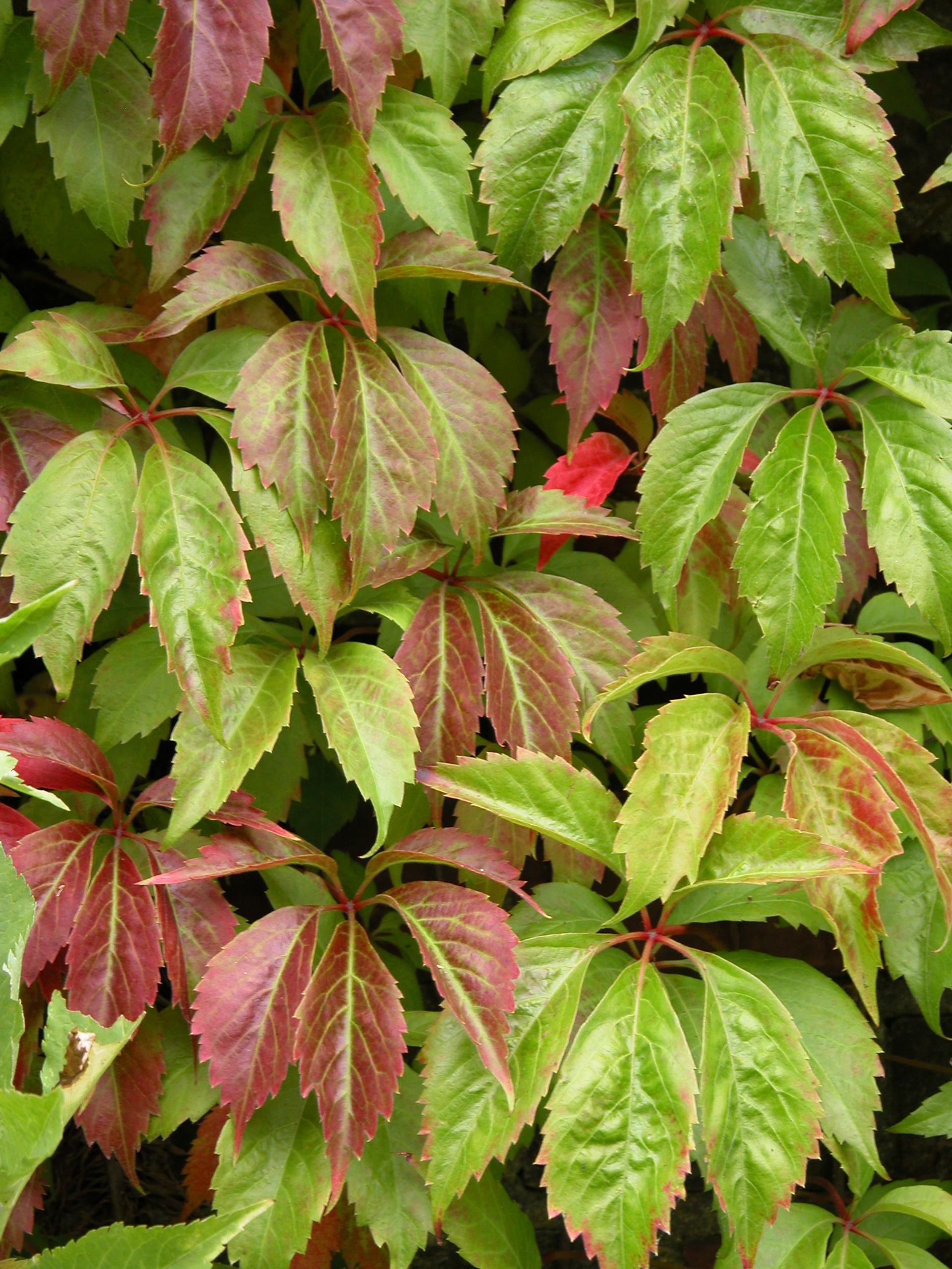 Wilde Wingerd Virginia Creeper Parthenocissus quinquefolia